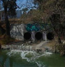 Descargas de agua residual